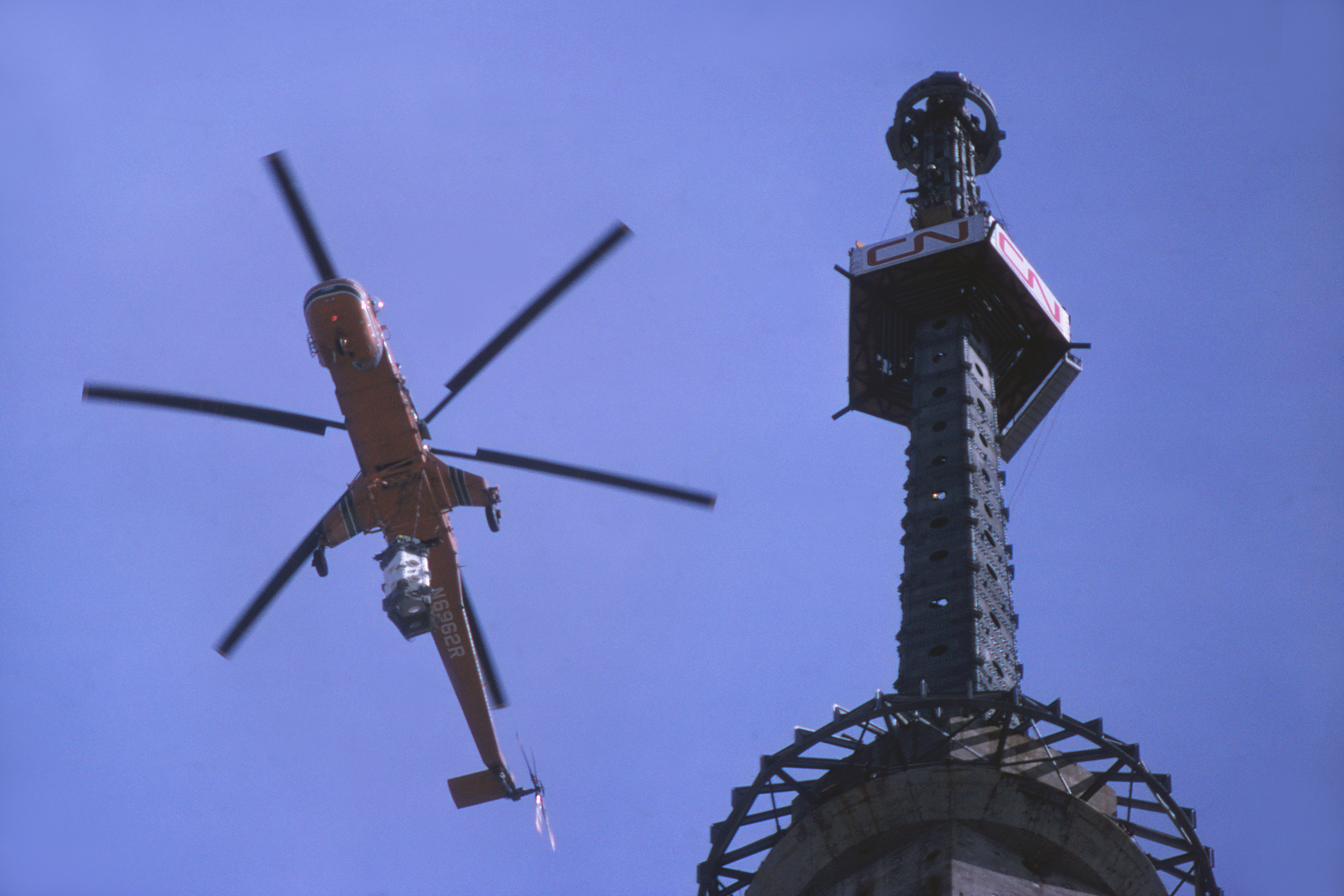 Sikorsky S-64 Skycrane helicopter "Olga" lifting a segment of upper section of Toronto's CN Tower during construction, March 1975. (Digitized from original Kodachrome.)